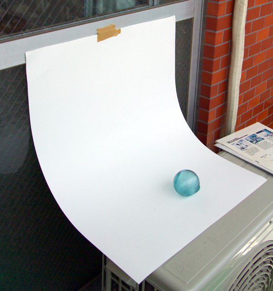 Setup for outdoor photography of small items in full shade. An inexpensive sheet of art paper taped to a wall, placed in full shade under an overhang, gives a blank background with slightly directional light suitable for nearly shadowless photographs of small items. (The subject is a glass float.)